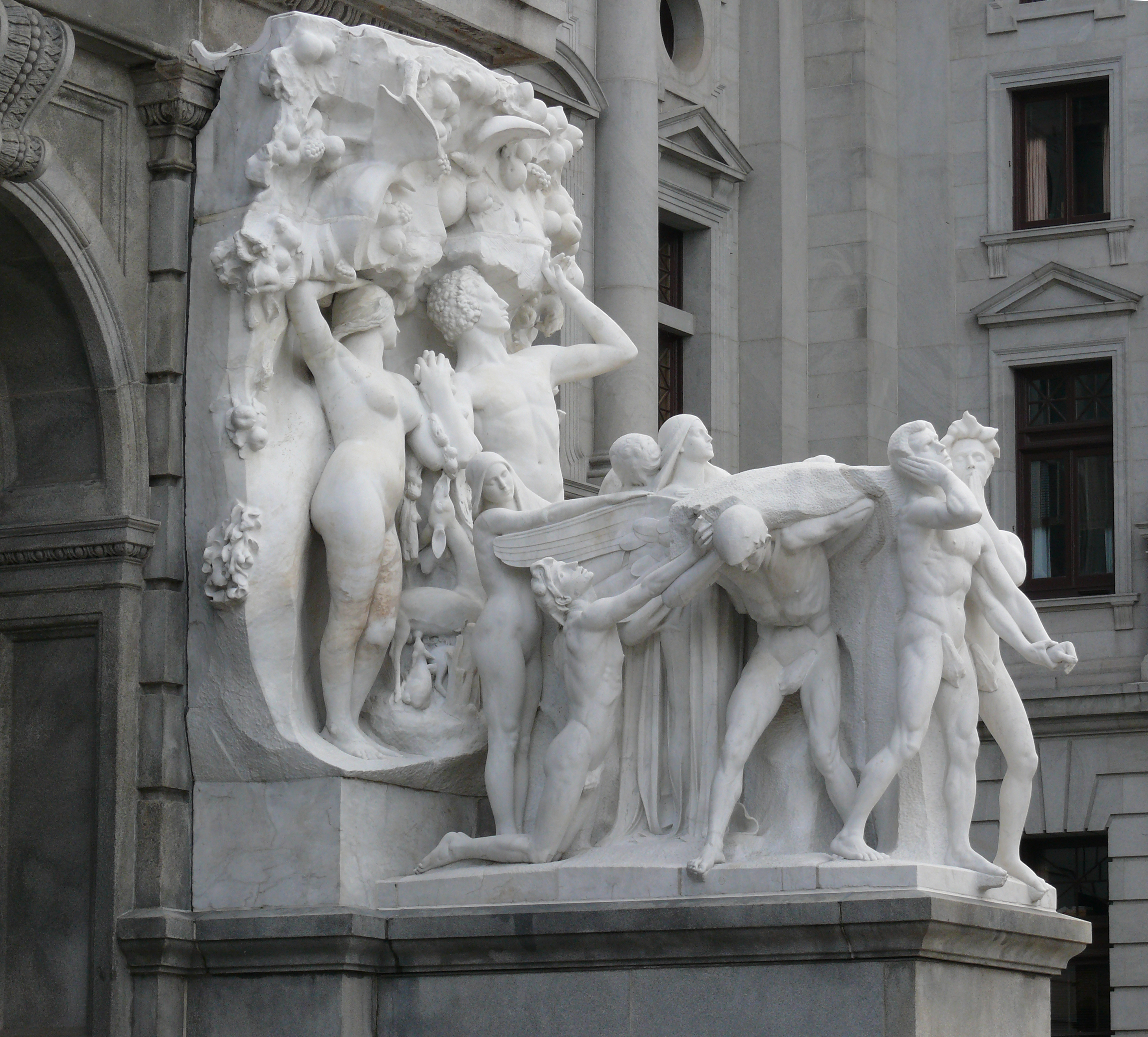 The Pennsylvania State Capitol was designed in 1902, in a Beaux-Arts style with Renaissance themes throughout. It is located in downtown Harrisburg. The entrance is flanked by two sculptures, entitled Love and Labor: The Unbroken Law and The Burden of Life: The Broken Law. Both were sculpted out of Carrara marble by George Grey Barnard in 1909.